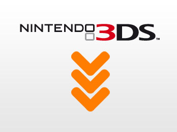 This is the current logo for the Nintendo 3DS Download Software service.